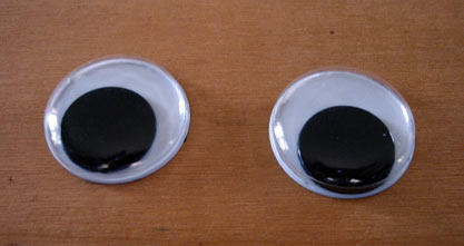 Googly eyes. Picture made by me.